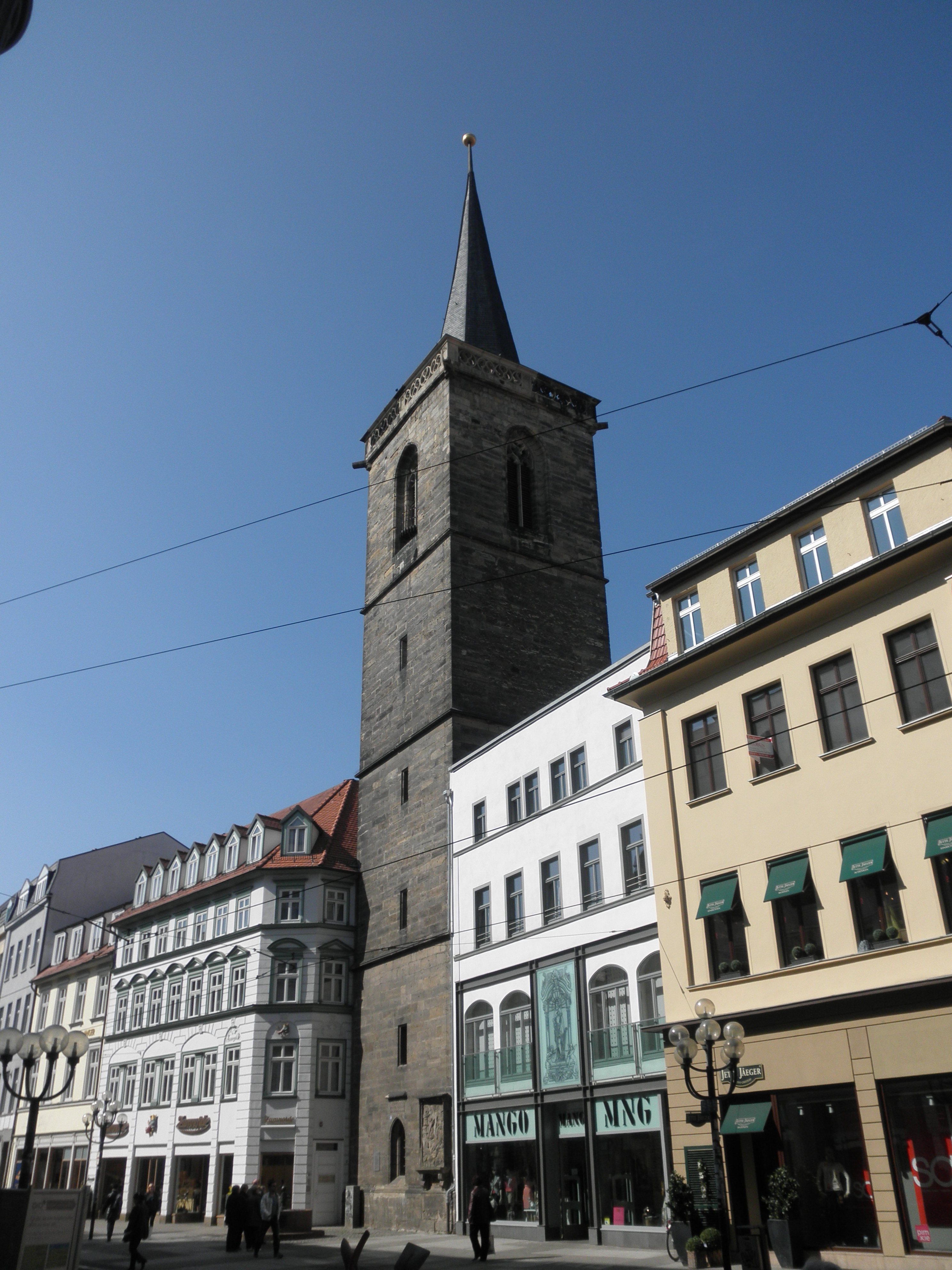 Church Spire